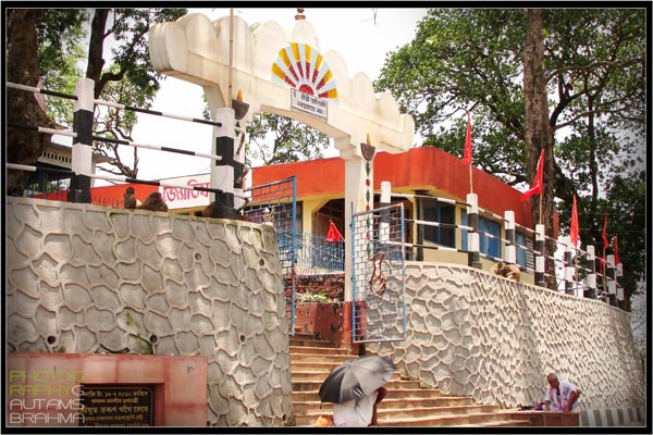 Entrance to Navagraha Temple, Guwahati, Assam